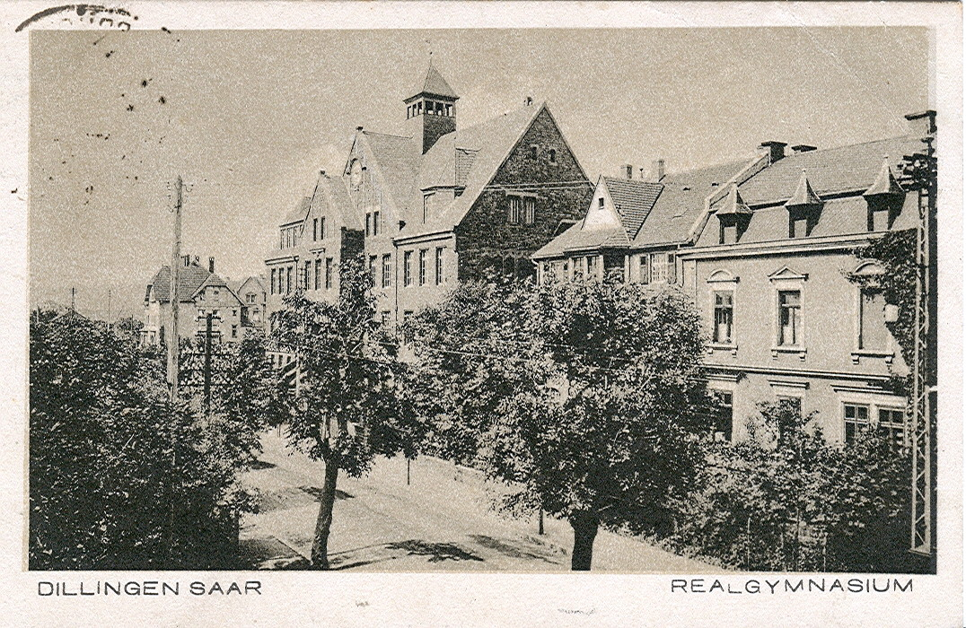 Postcard, dated 4.5.1918. Title: "Dillingen Saar - Realgymnasium".